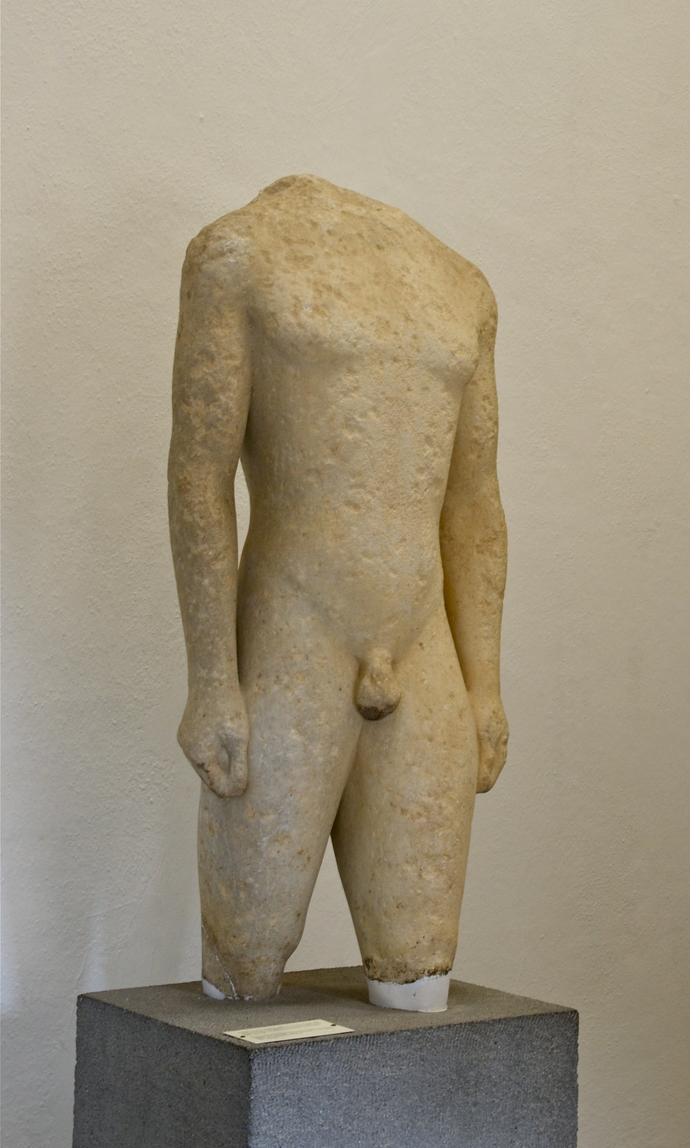 a kouros torso, found next to the altar of Helios at Kameiros. Attributed to a naxian workshop. 555-540 BCE.